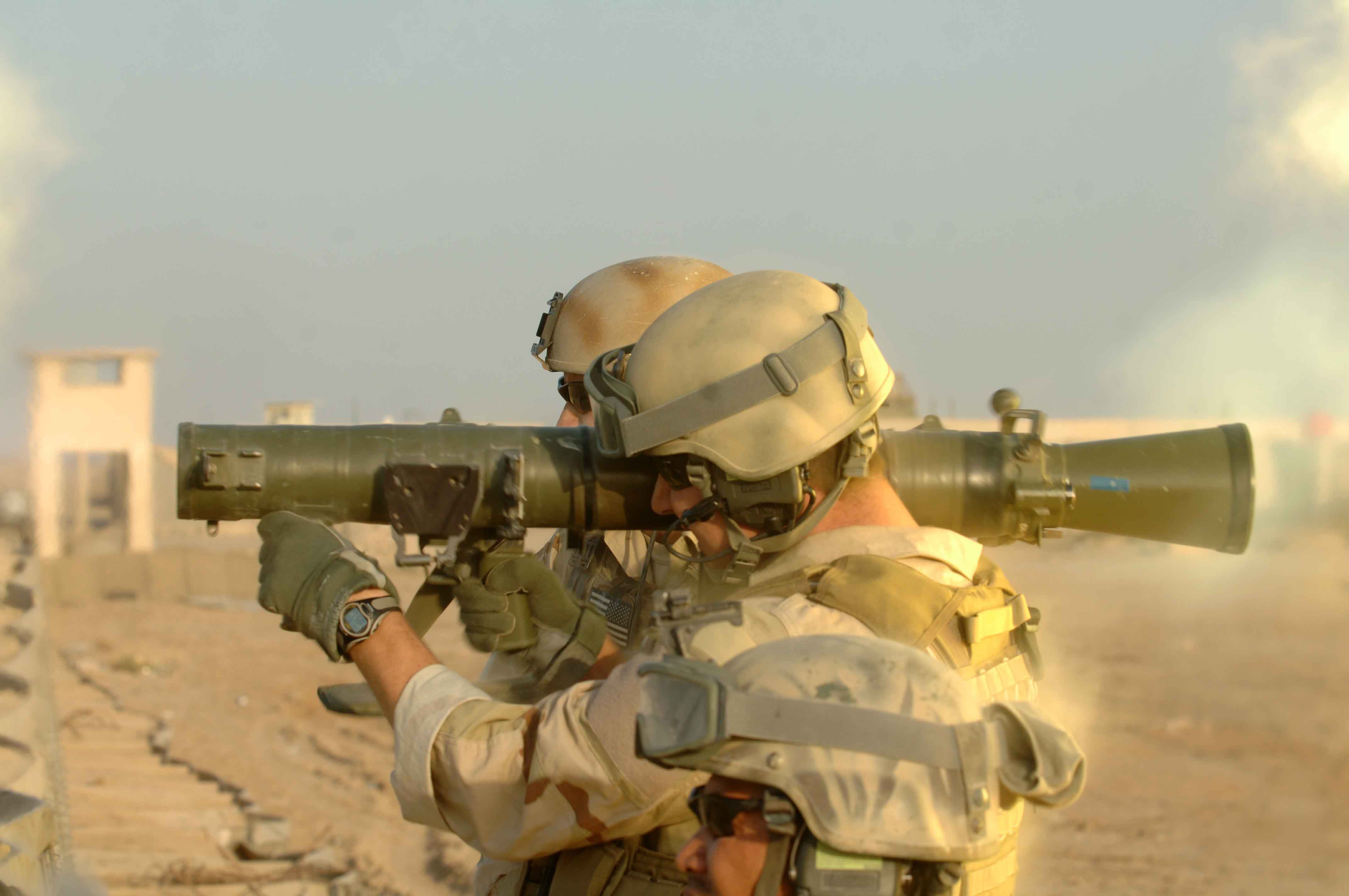 Camp CAMP SHEEJAN/COURAGEOUS, Iraq (Aug 3, 2007) - U.S.Army Special Forces hold familiarization training with the Carl Gustav M3 recoilless anti-tank rifle during Operation Iraqi Freedom.